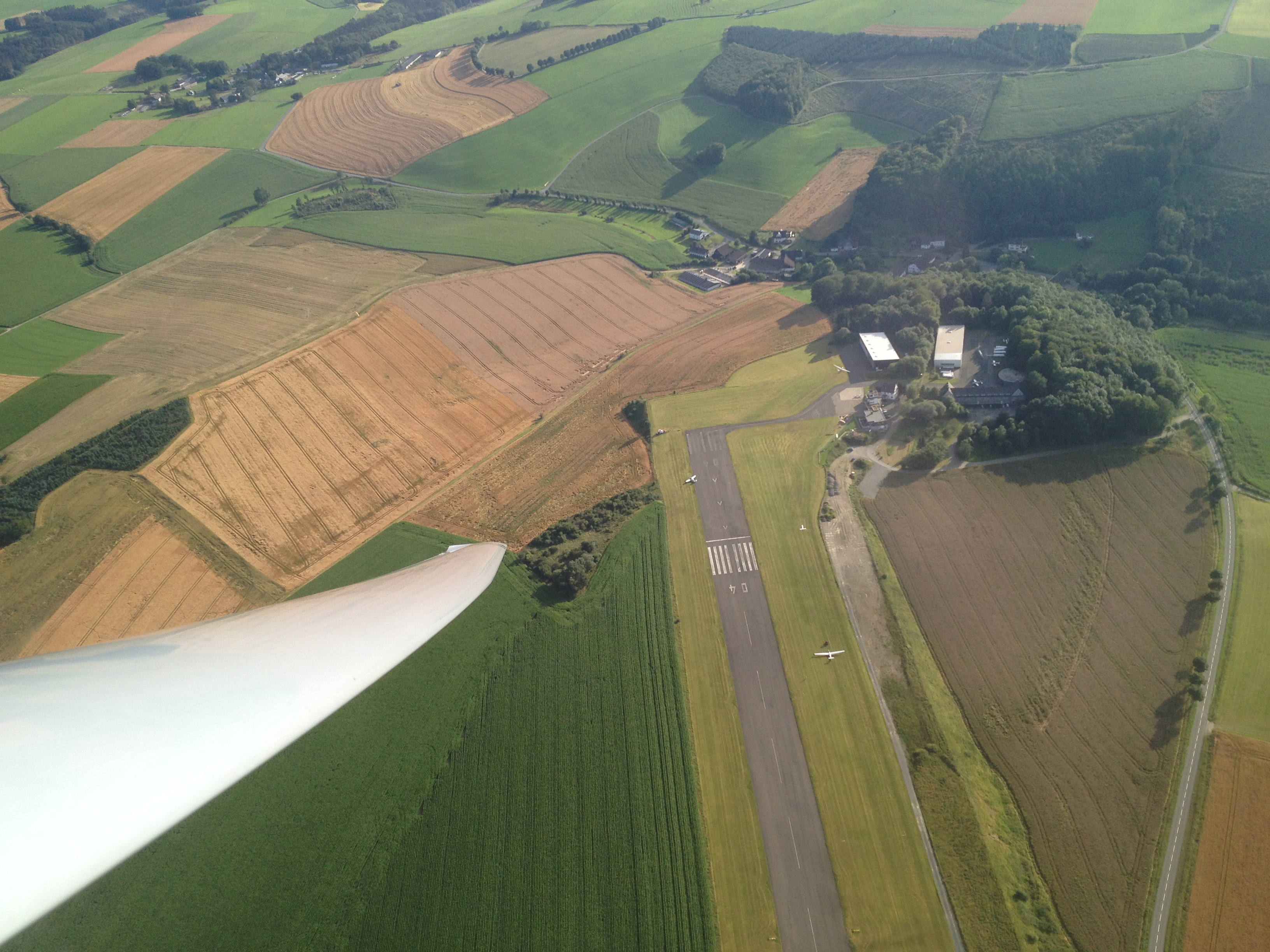 Aerial view of airfield Meschede-Schüren in Summer 2012 taken from a glider